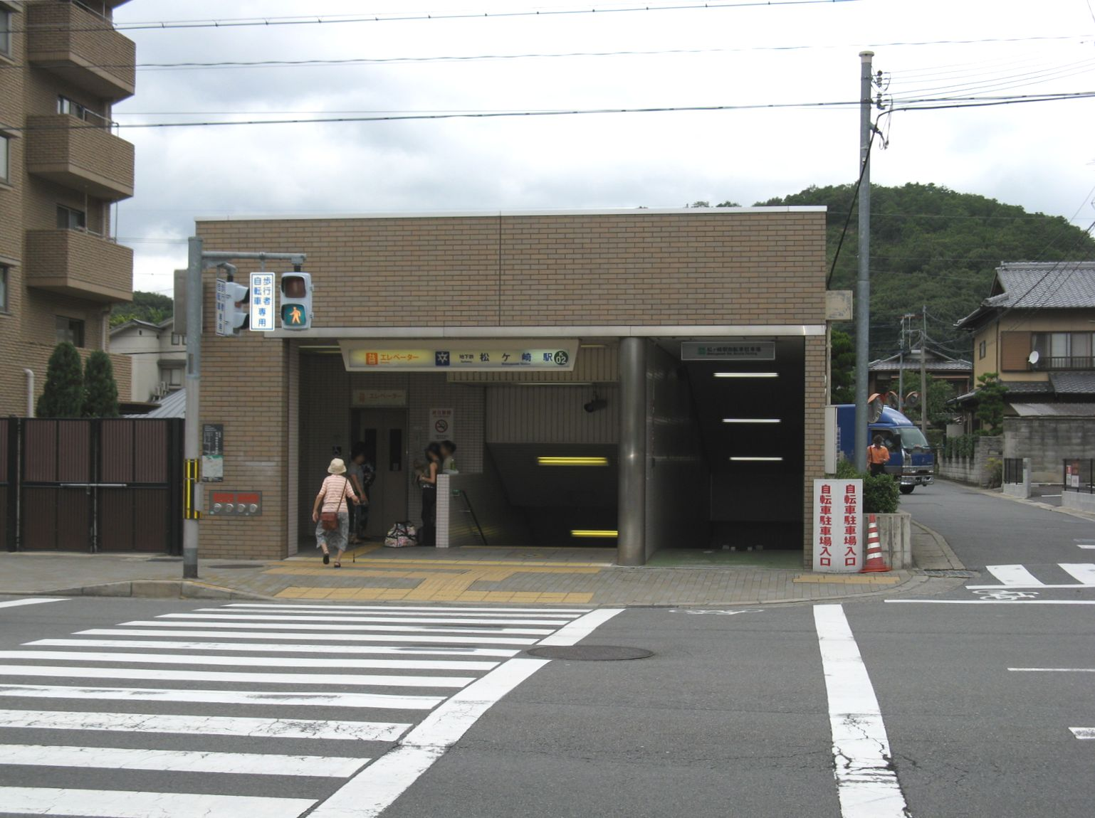 Kyoto Subway Matsugasaki Station (Kyoto) No.2 exit